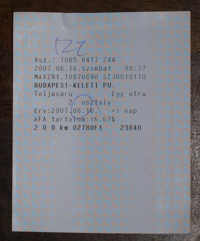 Rail ticket from Hungary